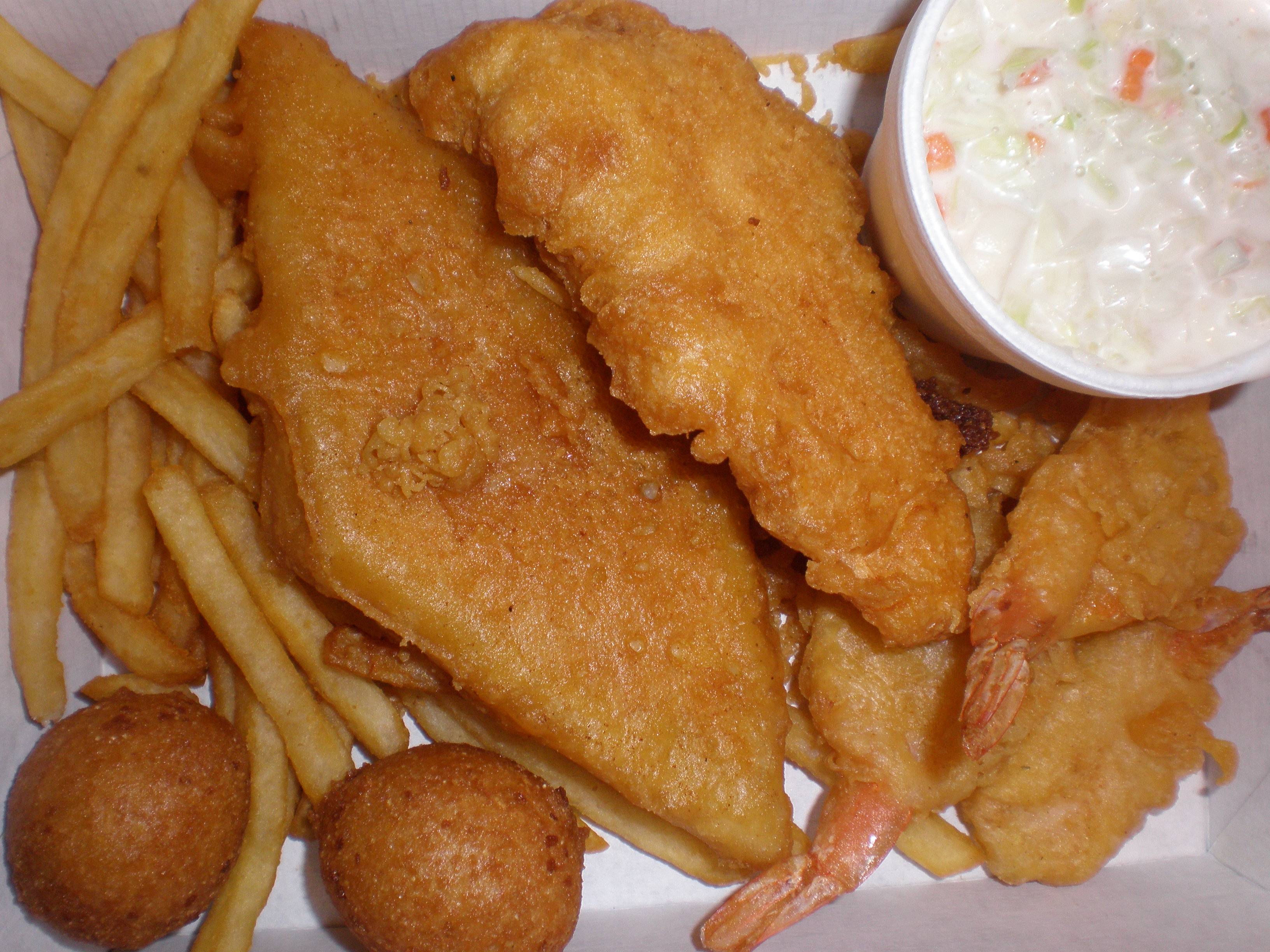 A Long John Silver's Sampler, consisting of 1 piece of fish, 3 shrimp, 1 chicken plank, coleslaw, fries, and 2 hushpuppies.